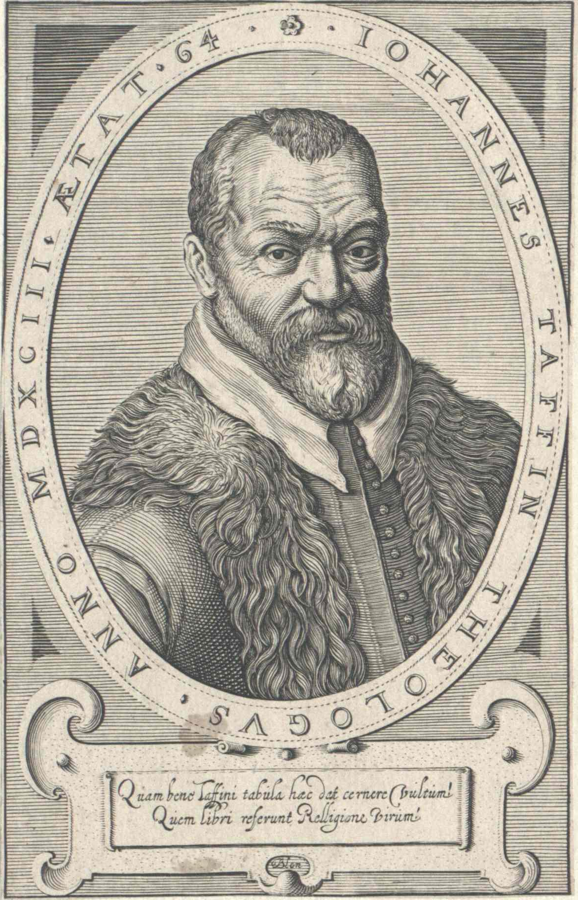 Portrait of Jean Taffin